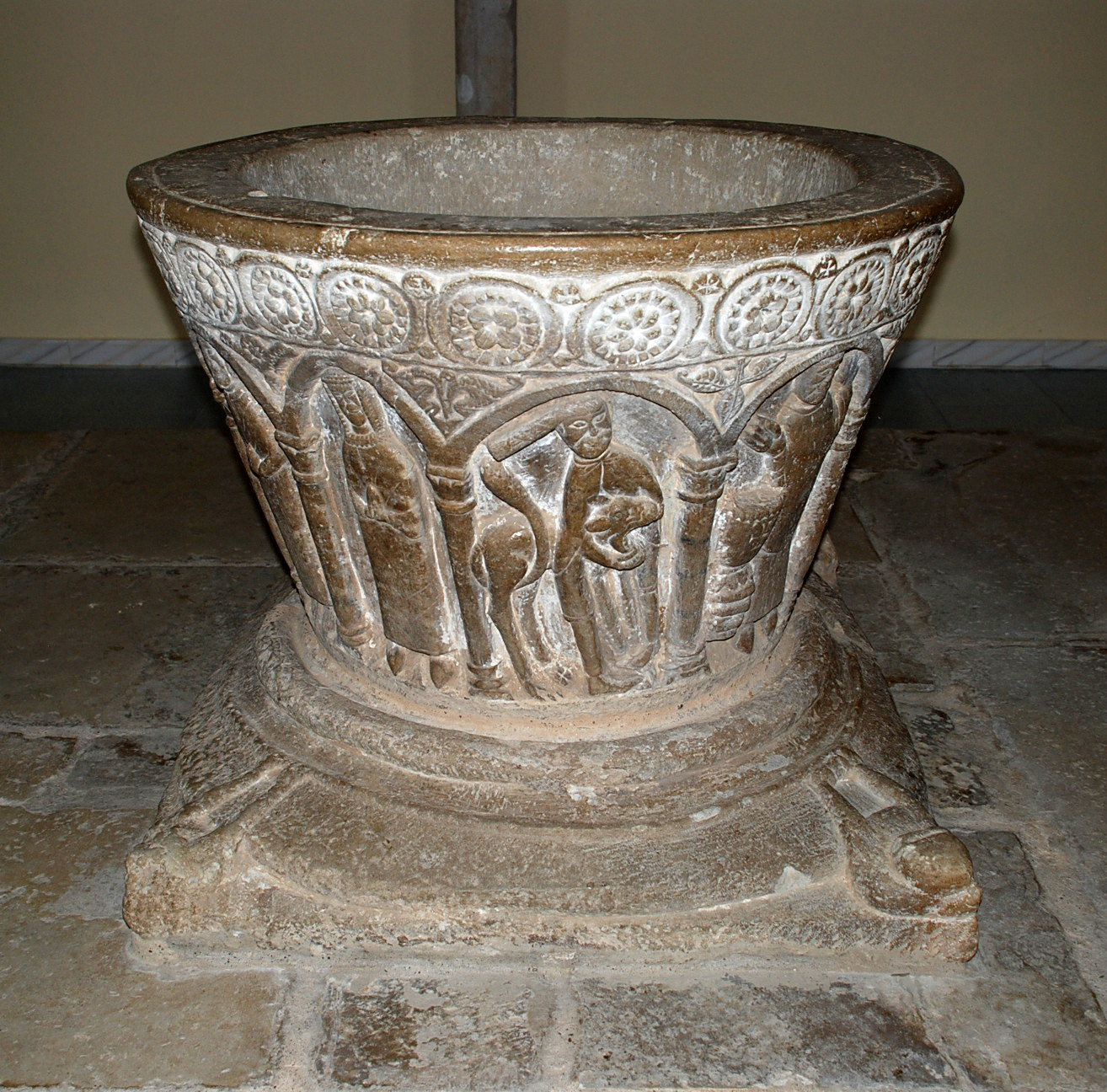 Baptismal font of Saint Esteban Church in Renedo de Valdavia (Palencia, Castile and León).